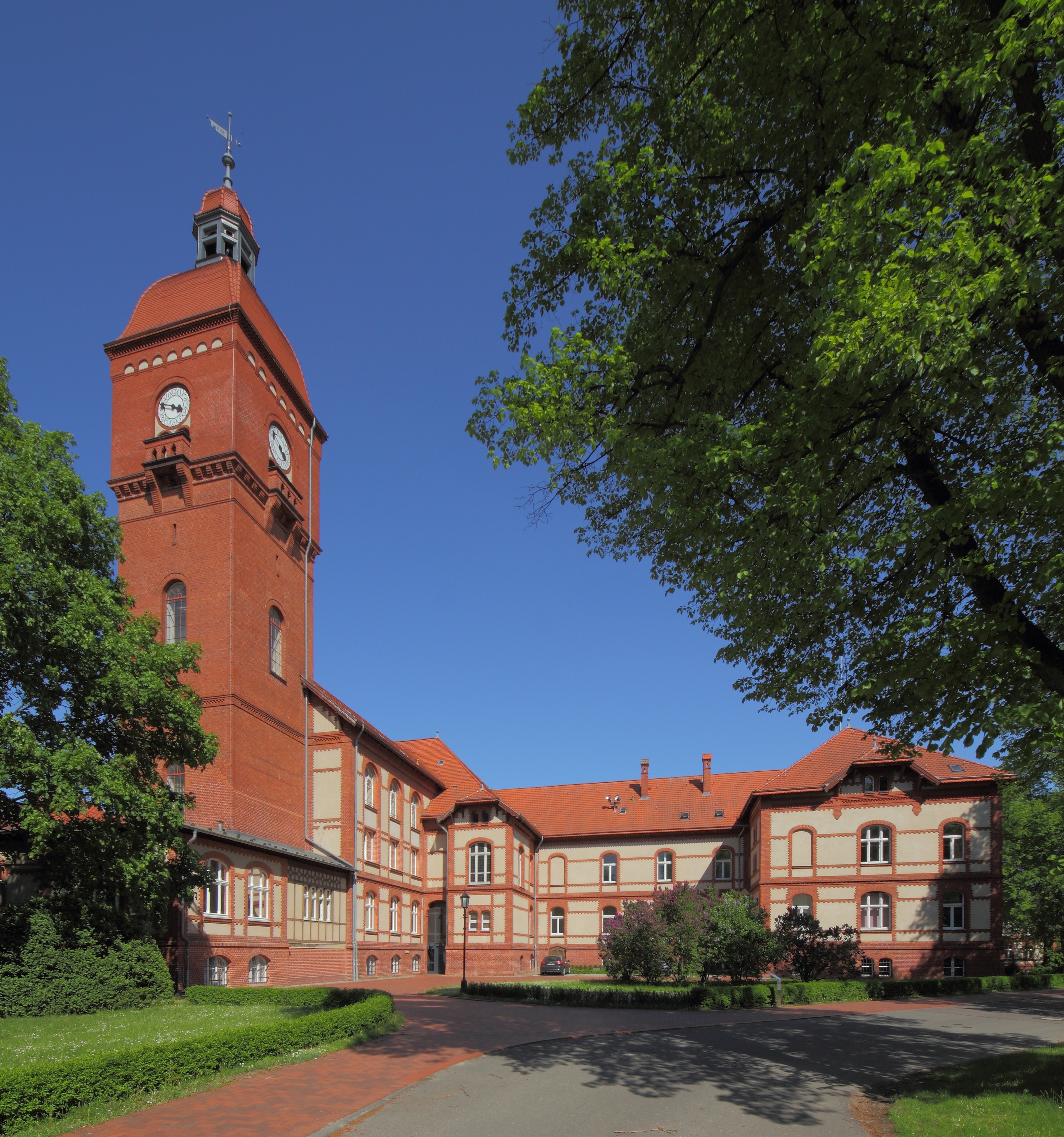 Hospital ensemble of Neuruppin, Brandenburg, Germany